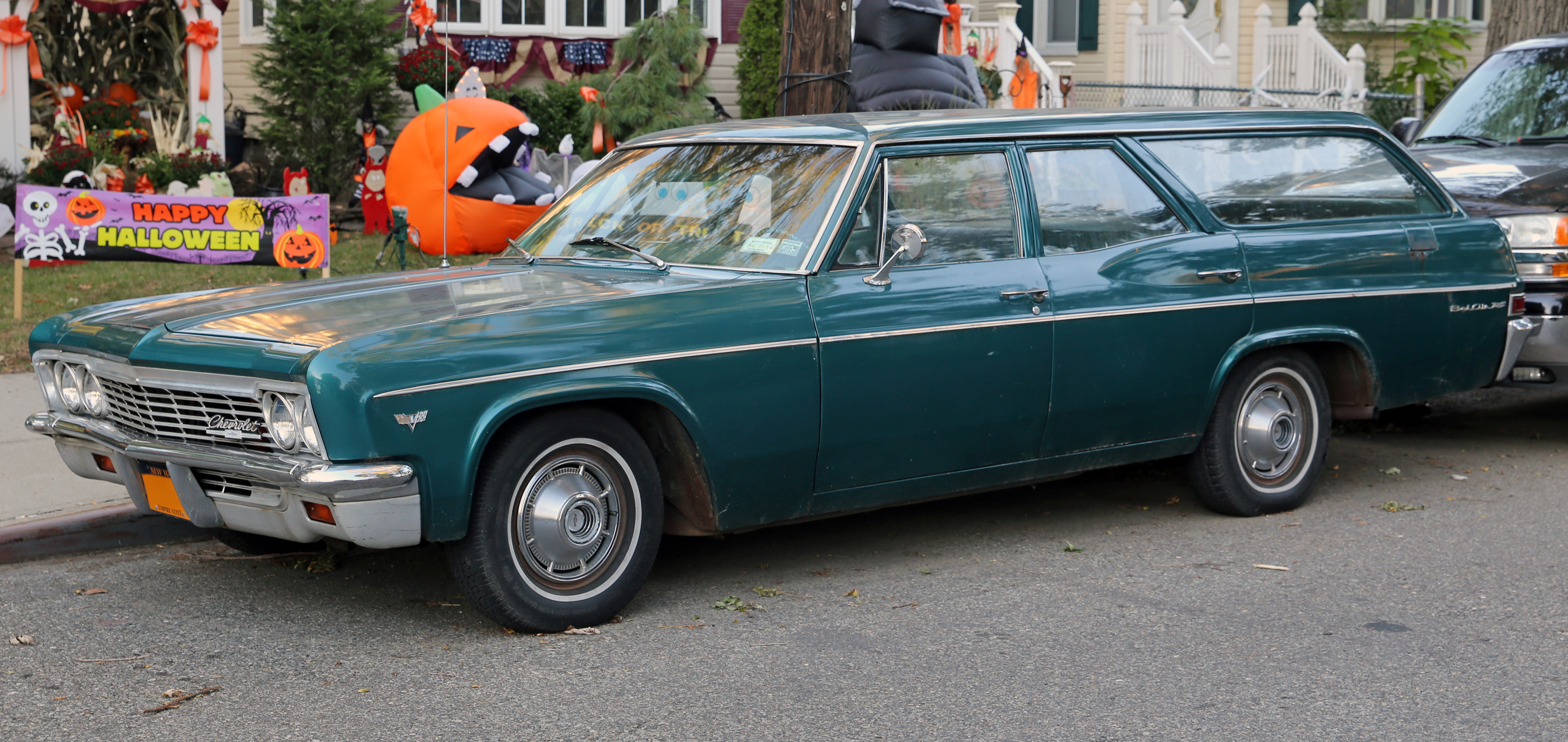 1966 Chevrolet Bel Air 2-seat Wagon (V8). In front of a Halloween decorated lawn, making this a very American photo. In GM parlance, a six-seater is a "2-seat" and a nine-seater is a "3-seat", referring to the number of rows. Seventh letter in the VIN is a "D", which wasn't officially listed by GM as an assembly plant but refers to Doraville, GA, where this one was built.